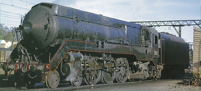 New South Wales C38 class locomotive #3803